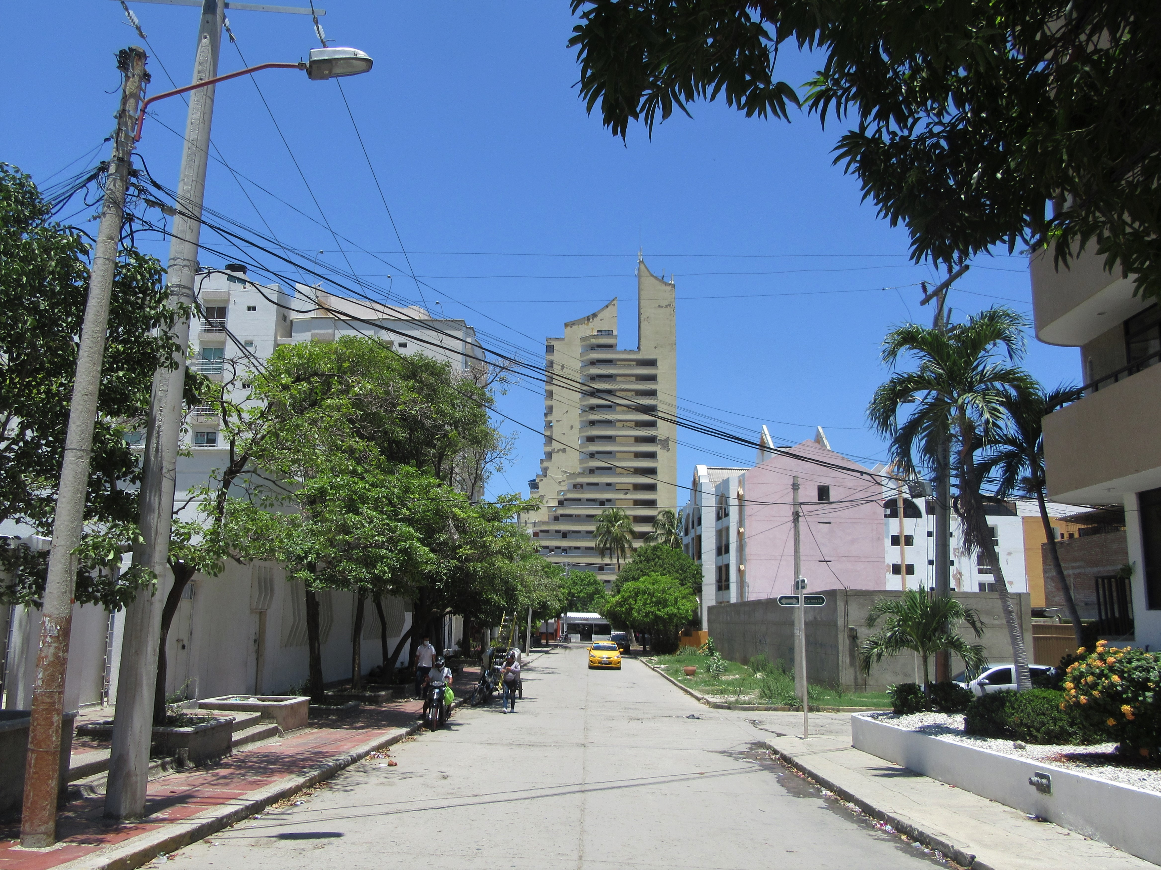 El Rodadero